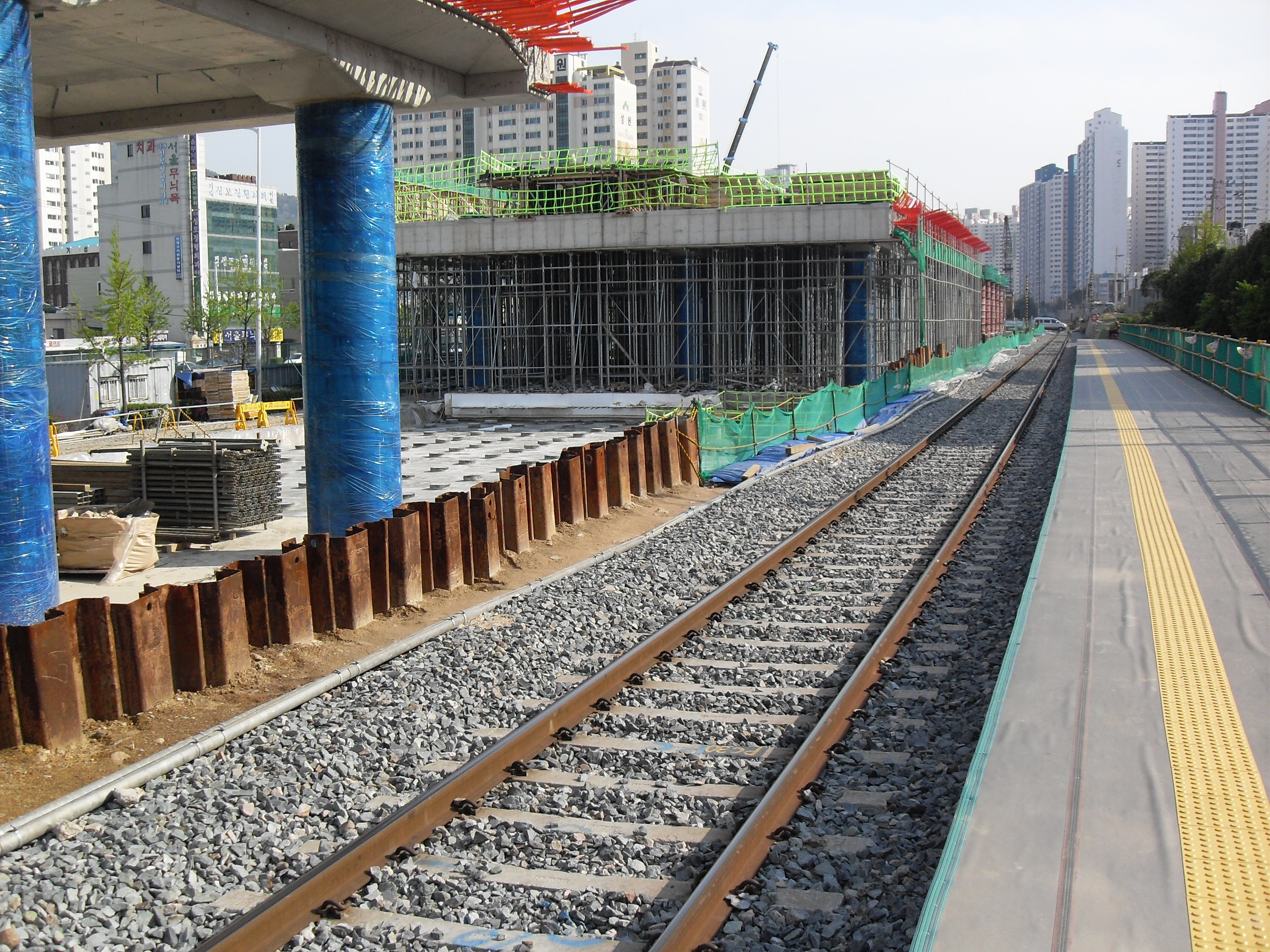 KORAIL Geoje Station platform.